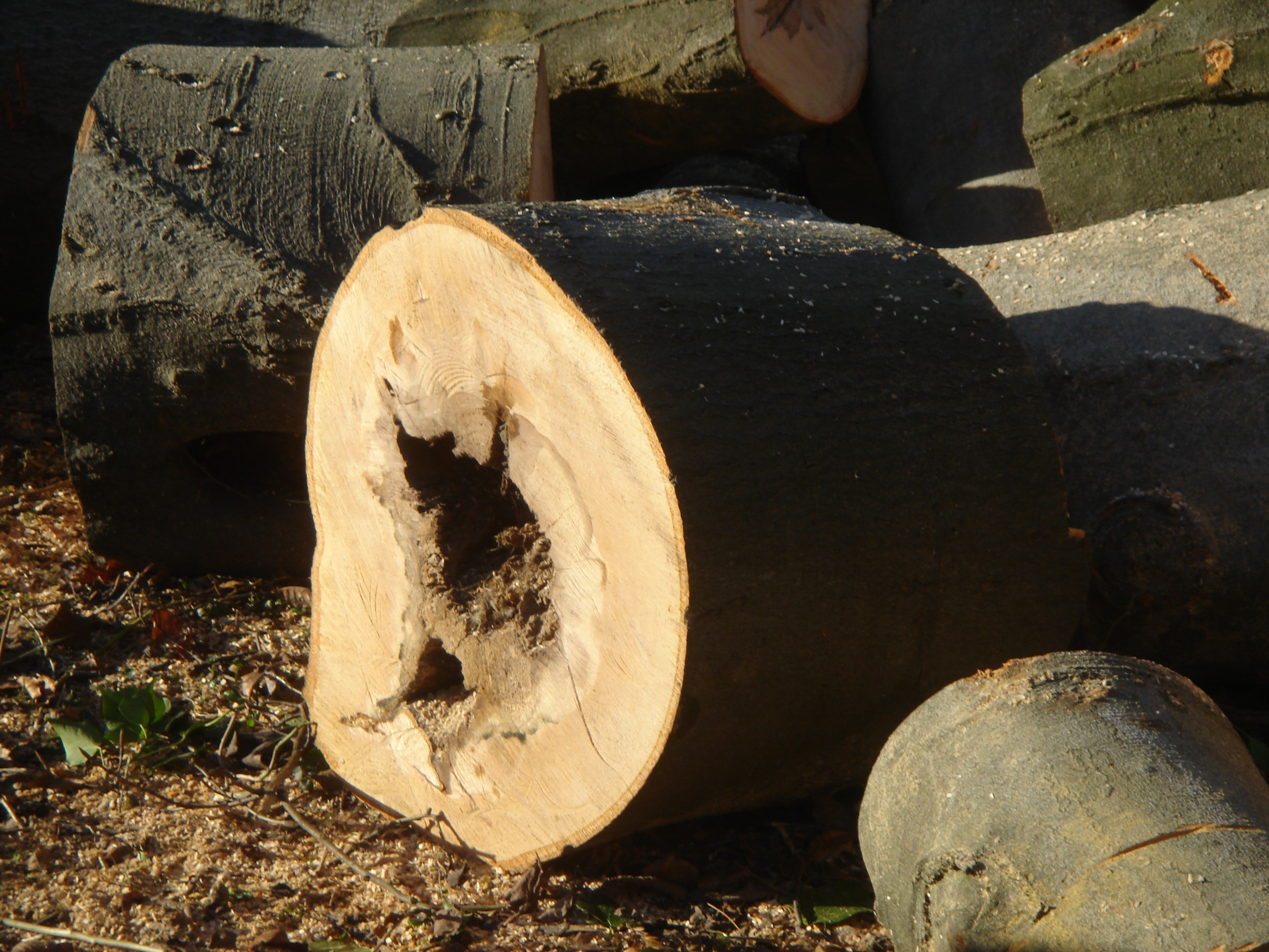 Part of the fallen trunk of one of the two Clemens-August-Buchen, over 250 years old European Beeches, at Botanical Garden Bonn. It fell on 18. Jan. 2007. The rotten core is visible.